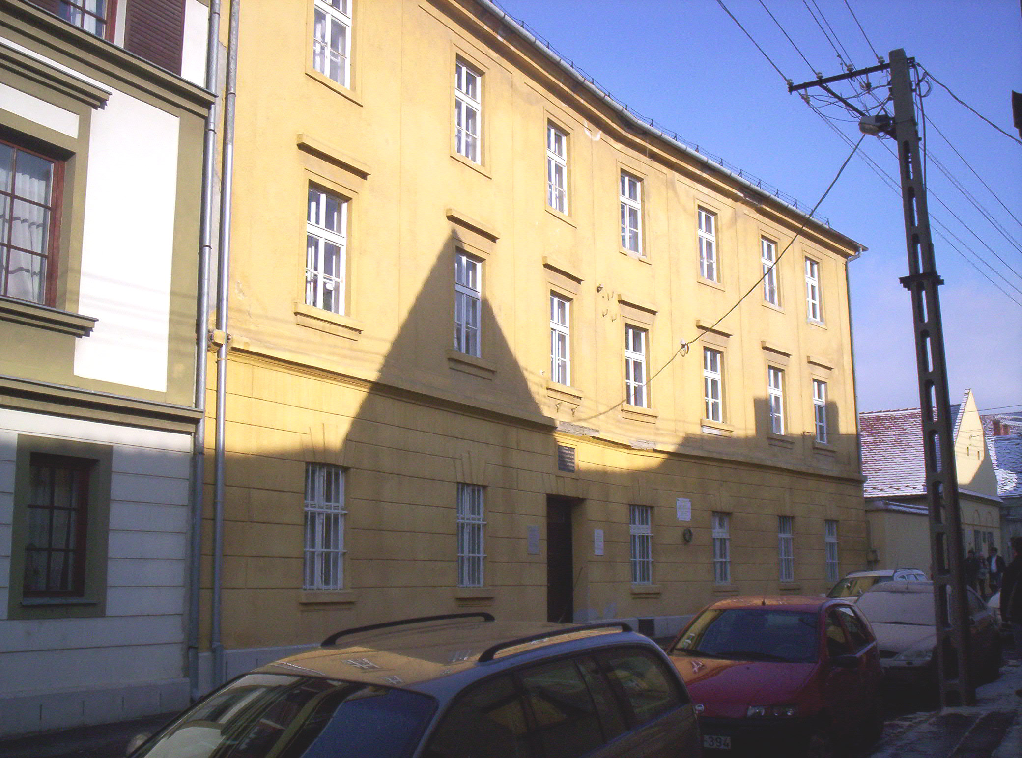 The old building of the Pápa Reformed College called "Ókollégium", today girls' boarding house Az "Ókollégium", a Pápai Református Kollégium régi épülete, ma leány és fiuinternátus. Műemlék ID 10221. This is a photo of a monument in Hungary, Identifier: 10221